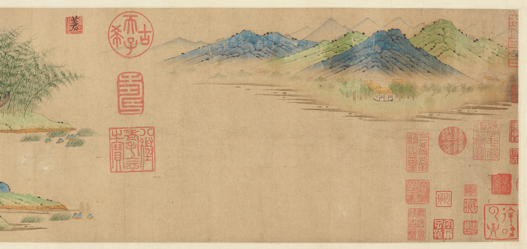 Qian Xuan Wang Xizhi Watching Geese. (23,2x92,7cm) Section. Metropolitan Museum of Art, N-Y